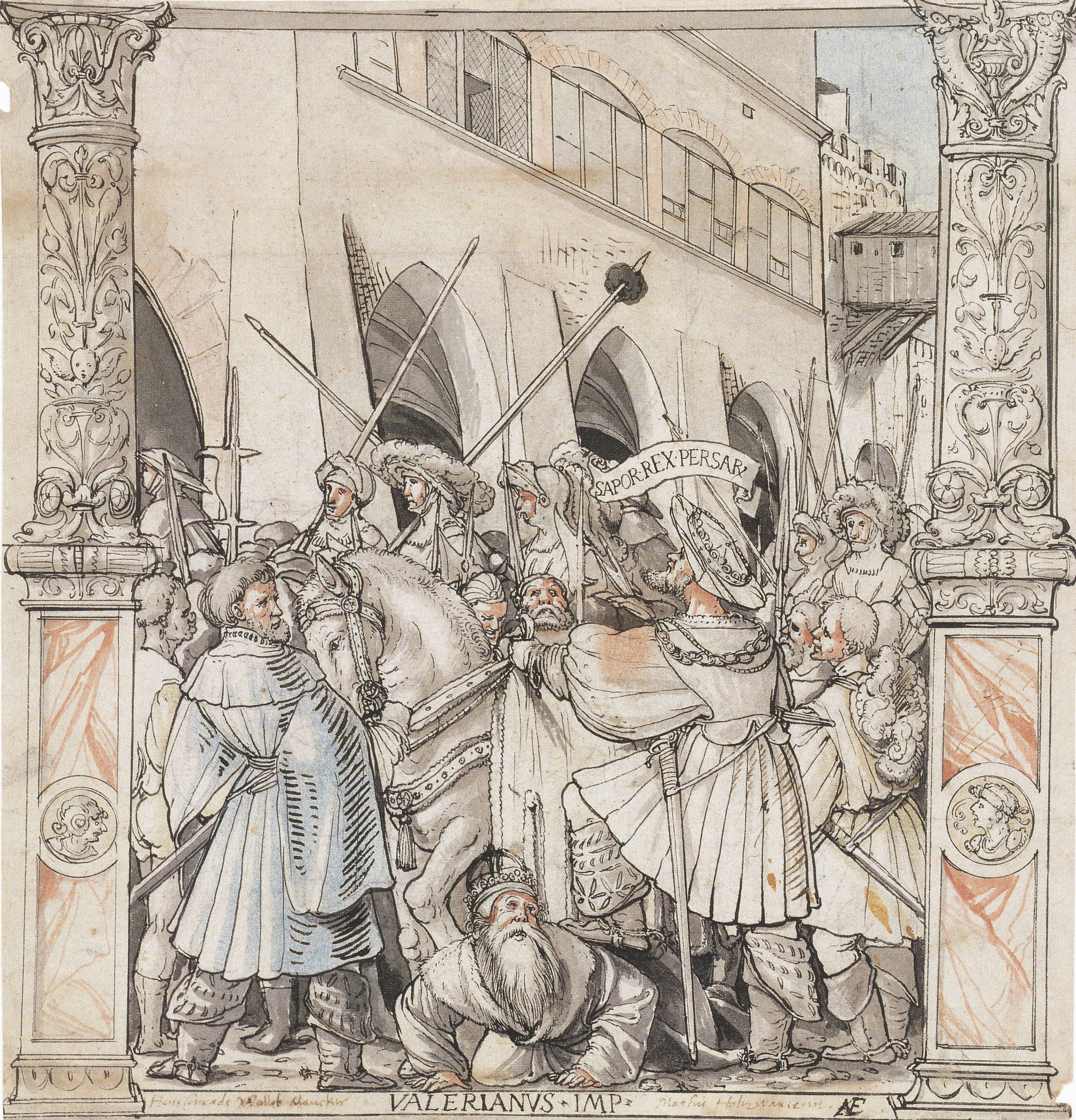 The Humiliation of Emperor Valerian by Shapur, King of Persia. Pen and ink over preliminary chalk drawing, grey wash, and watercolour, 28.5 × 26.8, Kunstmuseum Basel. Holbein drew this as a design for his murals for the Council Chamber of the Town Hall in Basel. Apart from a few fragments, the murals themselves are now lost. This drawing comes from the first phase of Holbein's work on the project, when classical narratives were used to remind councillors of the need for good government and warn against the abuse of power. (When Holbein resumed the work after his two-year visit to England (1526–28), the reformed council commissioned him to illustrate Old Testament stories.) Here the Roman Emperor Valerian (253–60) is humiliated by the Sassanid high king Shapur (242–72), who used him as a mounting block to climb on his horse.